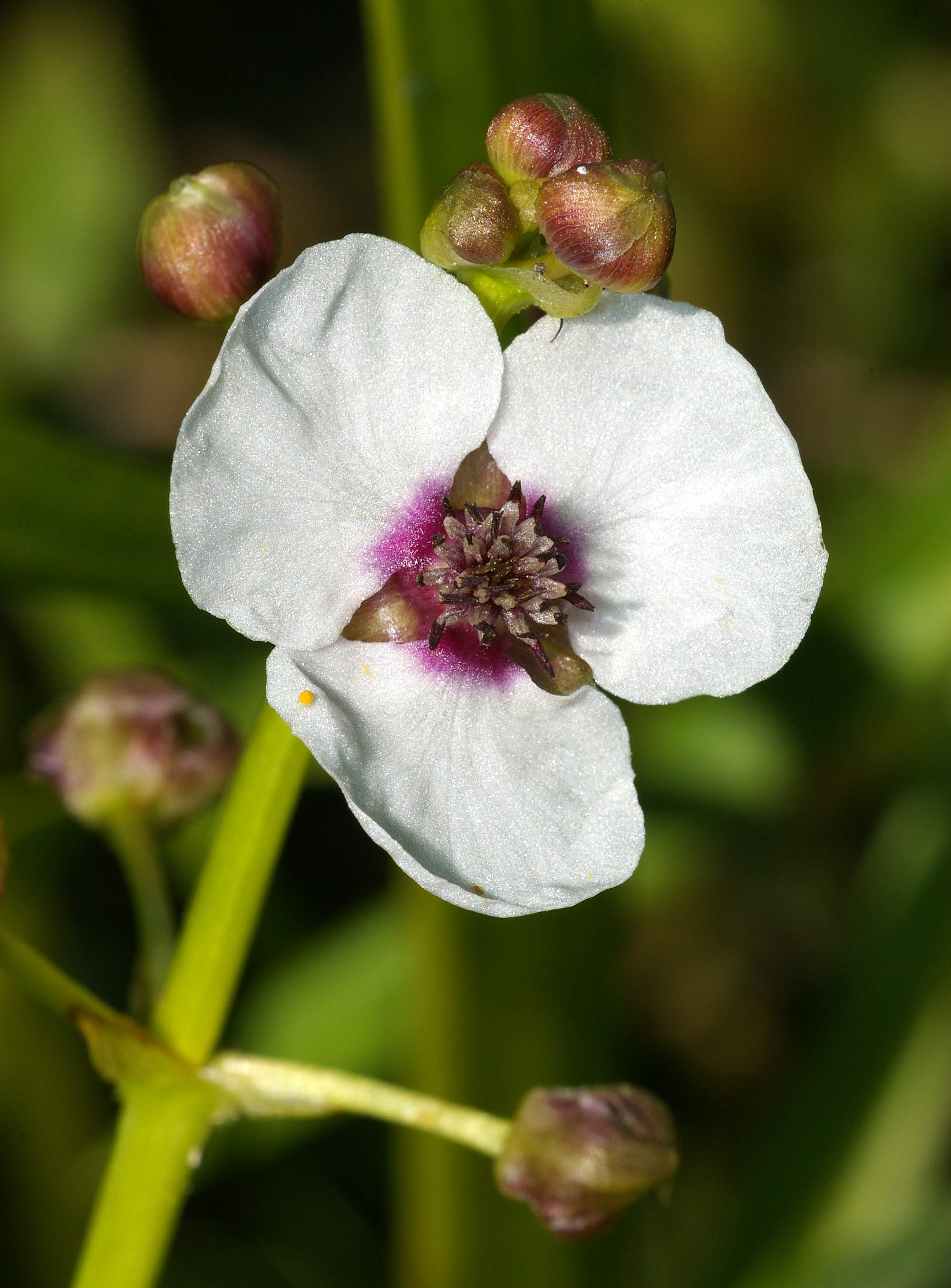 Inflorescence of the waterplant Sagittaria sagittifolia.